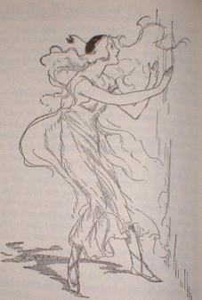 illustration from The Tin Woodman of Oz